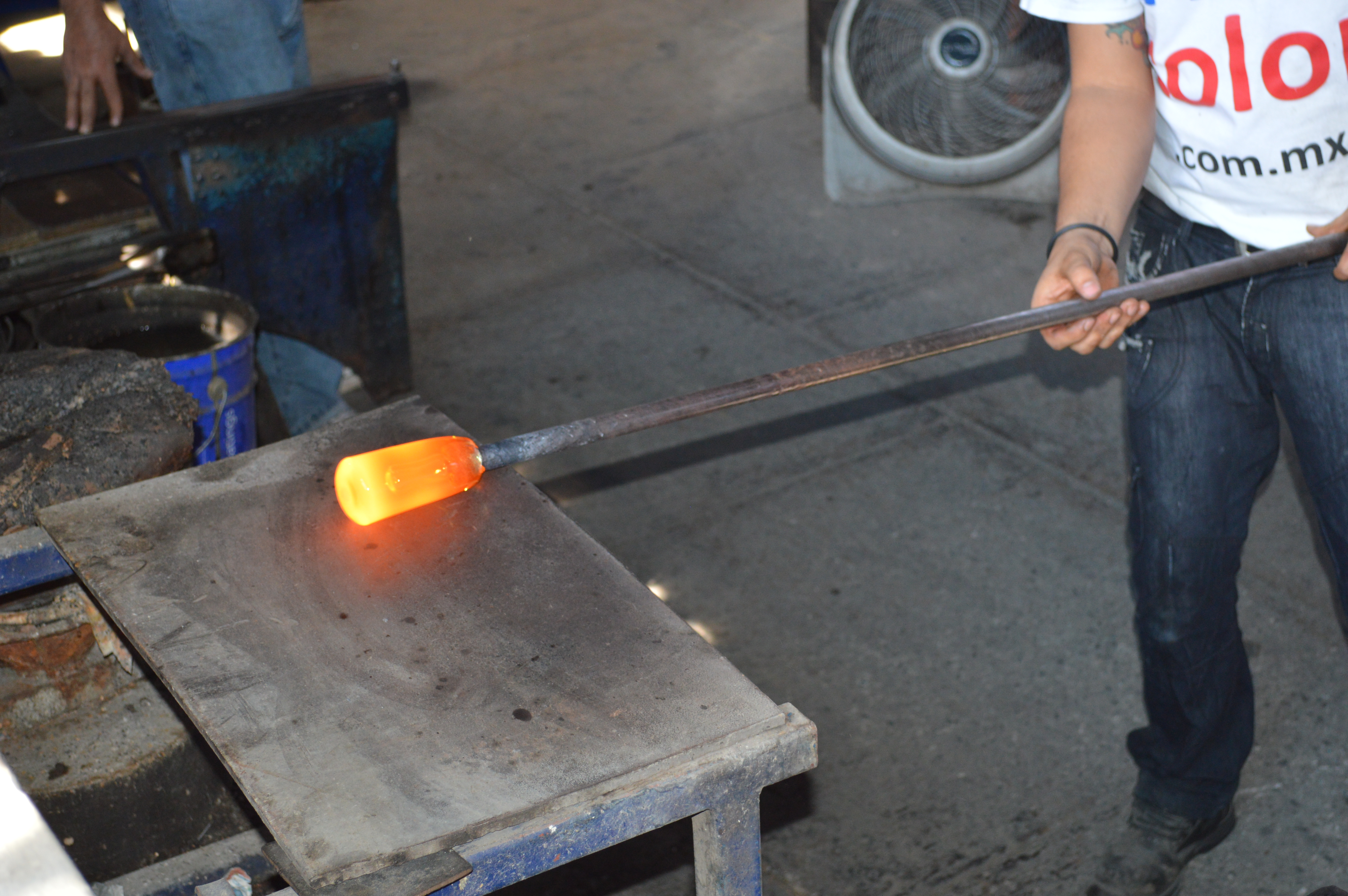 Rolling hot glass to make large red decorative sphere at the Cristacolor glass blowing workshop open to public viewing in Tonalá, Jalisco, Mexico